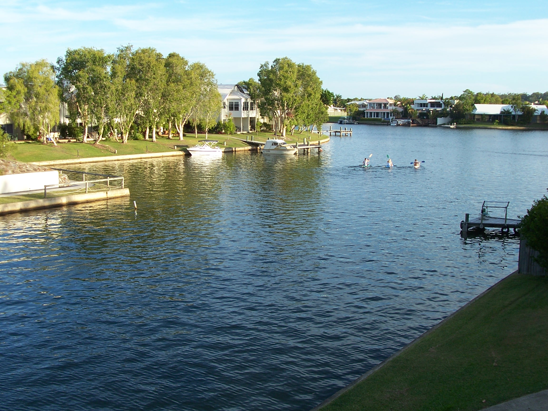 Taken by Zephyr103 09:10, 23 December 2006 (UTC)